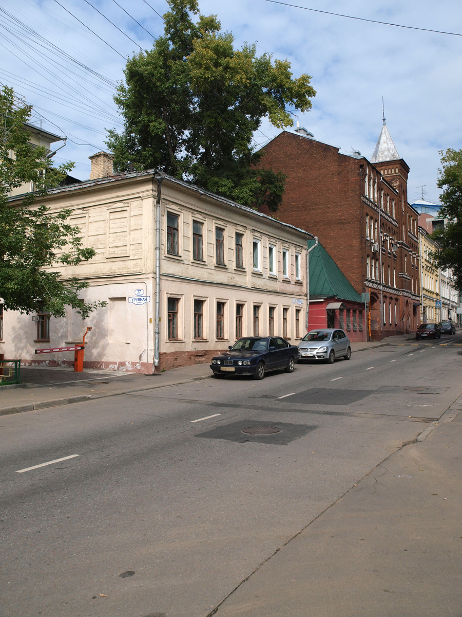 Trubnaya Street, Moscow